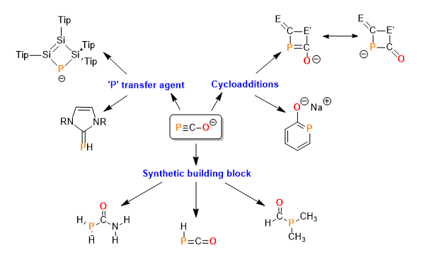 A scheme depicting the different types of reactions that occur with the PCO anion.